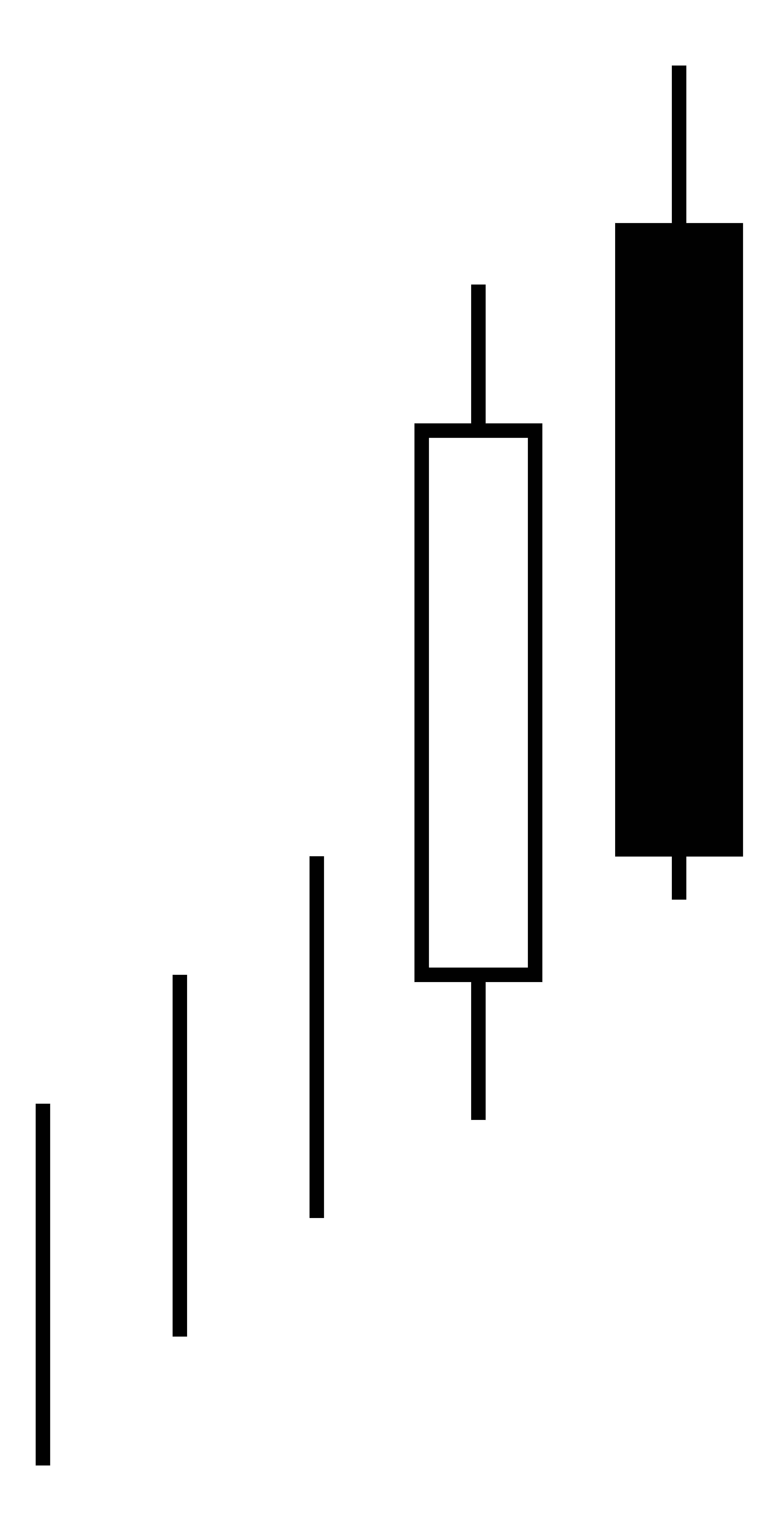 Bearish meeting lines